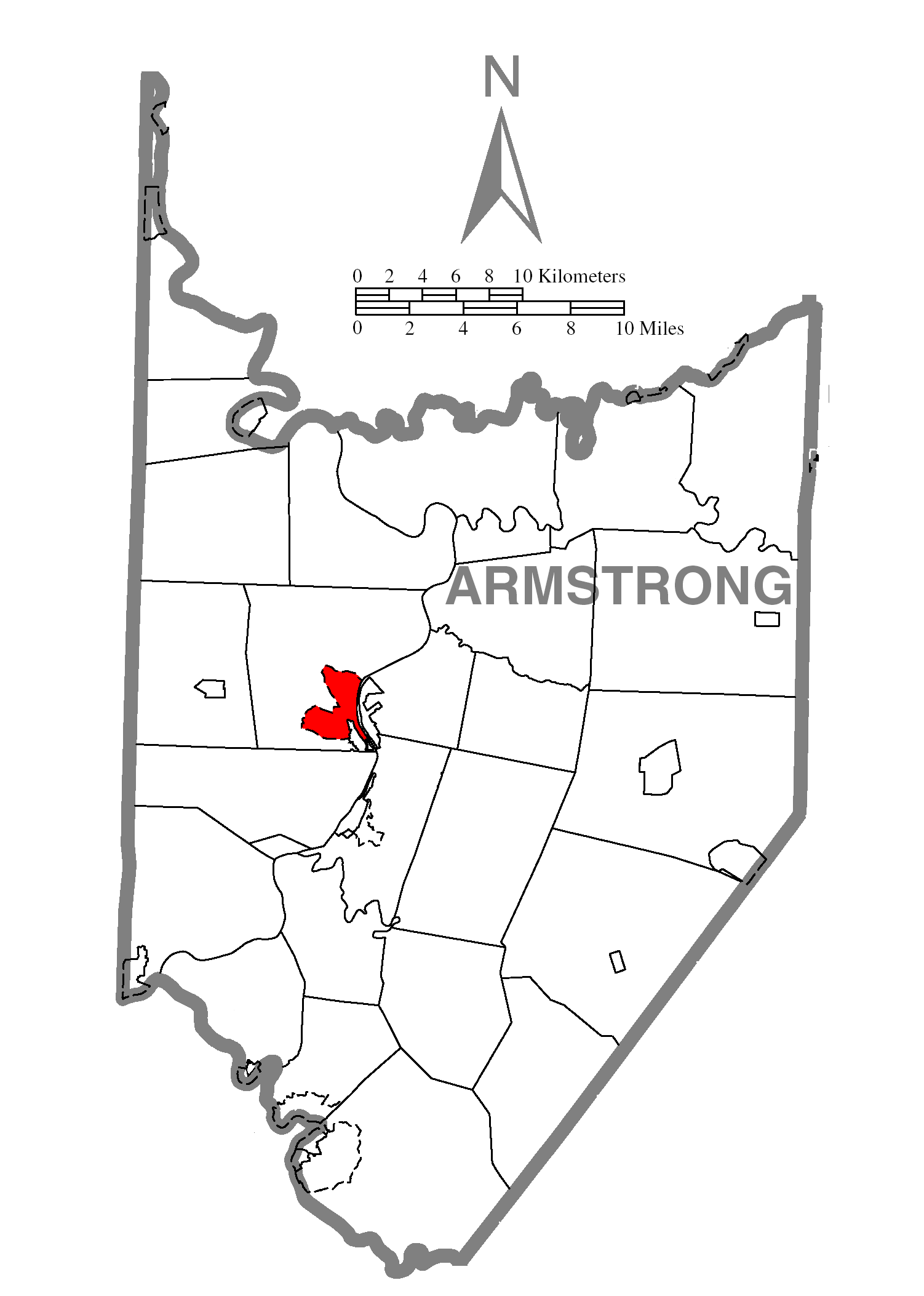 A map of Armstrong County showing West Hills, Pennsylvania (alternate) highlighted on the map.